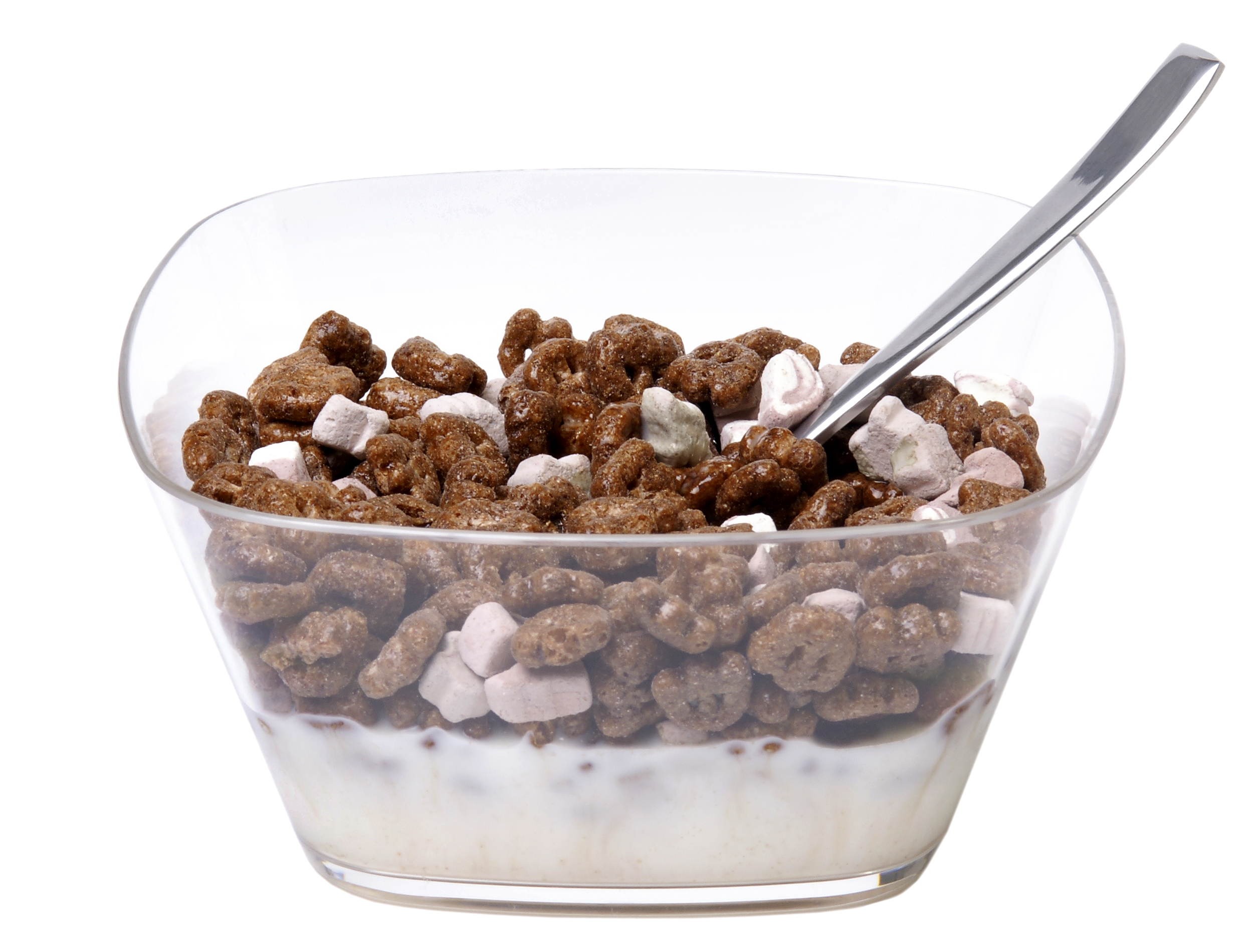 A bowl of Count Chocula cereal, shown with 2% milk in a clear plastic bowl.